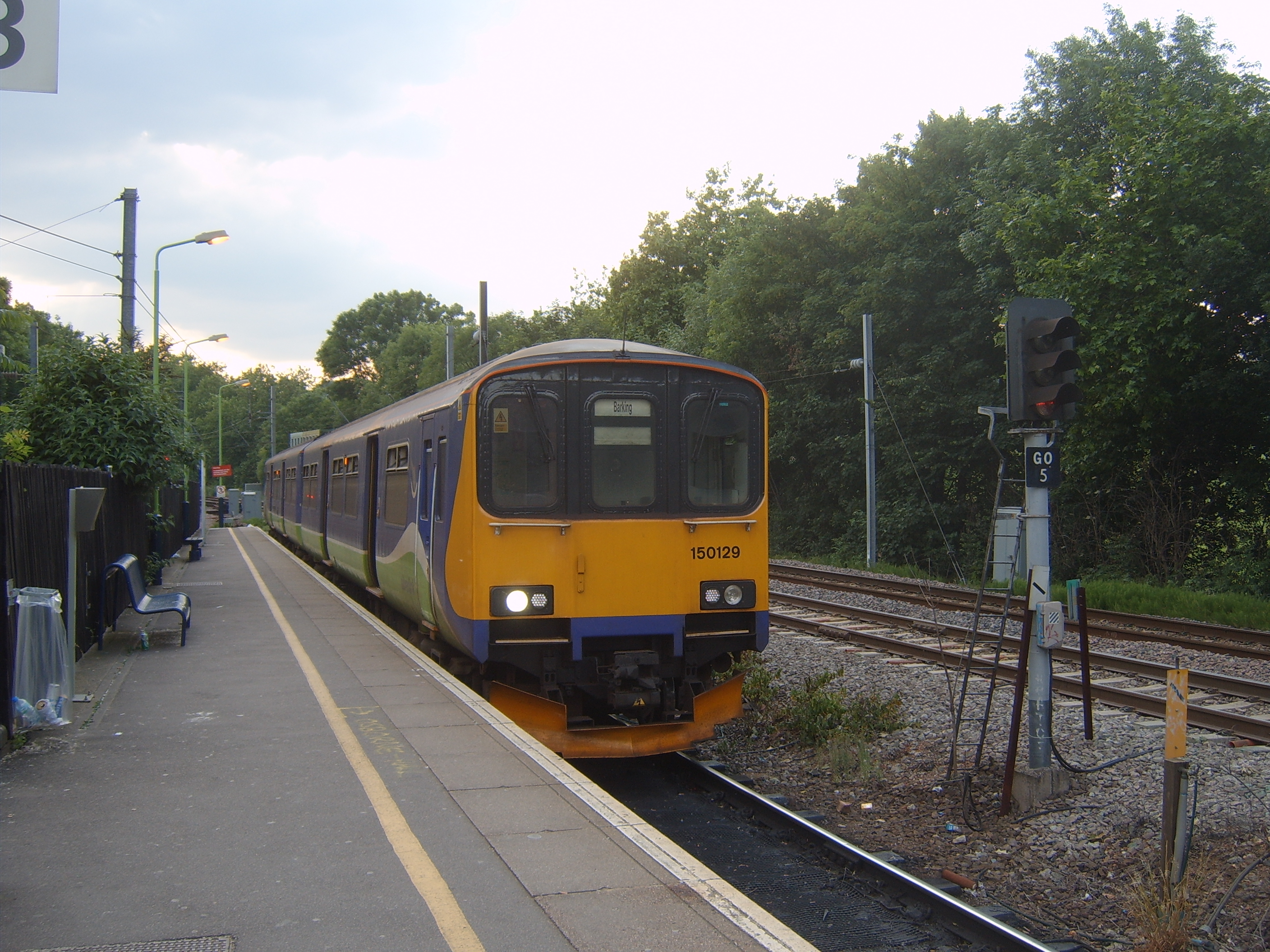 Taken at Gospel Oak, two car Sprinter DMU, 150.129 is seen on a service for Barking. Pre-London Overground days, the service was operated by Siverlink until the franchise was taken over later in 2007 by London Overground.